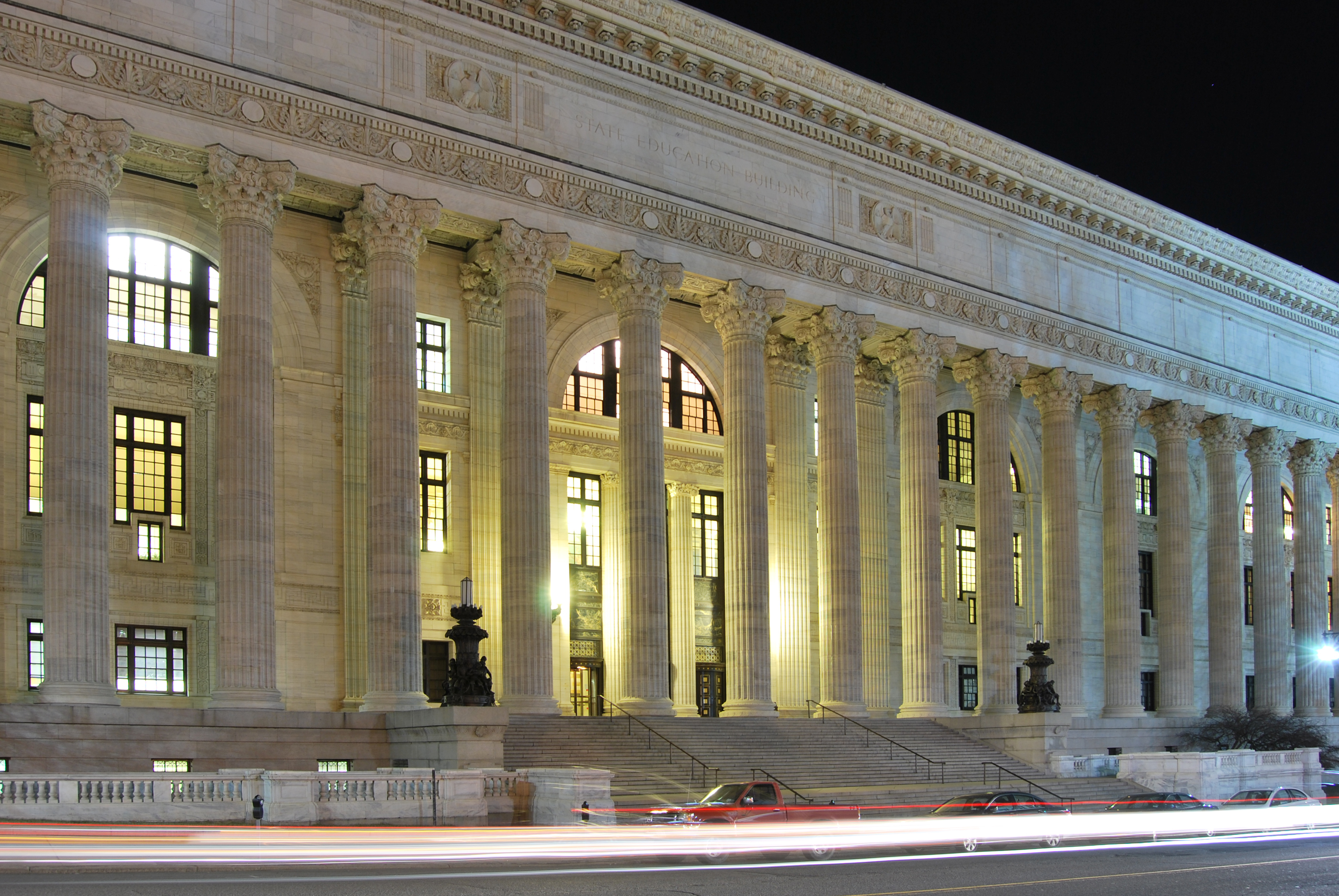 New York State Education Department building on Washington Avenue in Albany, New York, United States.